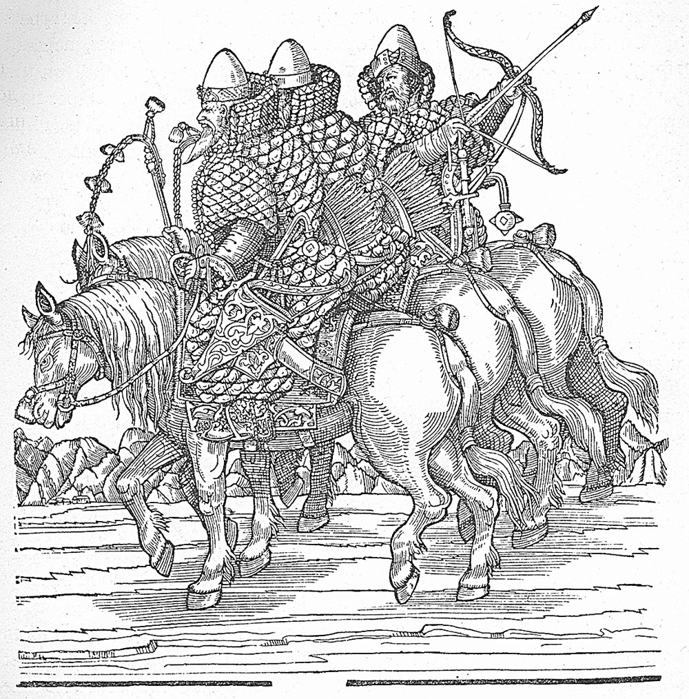 Equipment of muscovy cavalrymans.